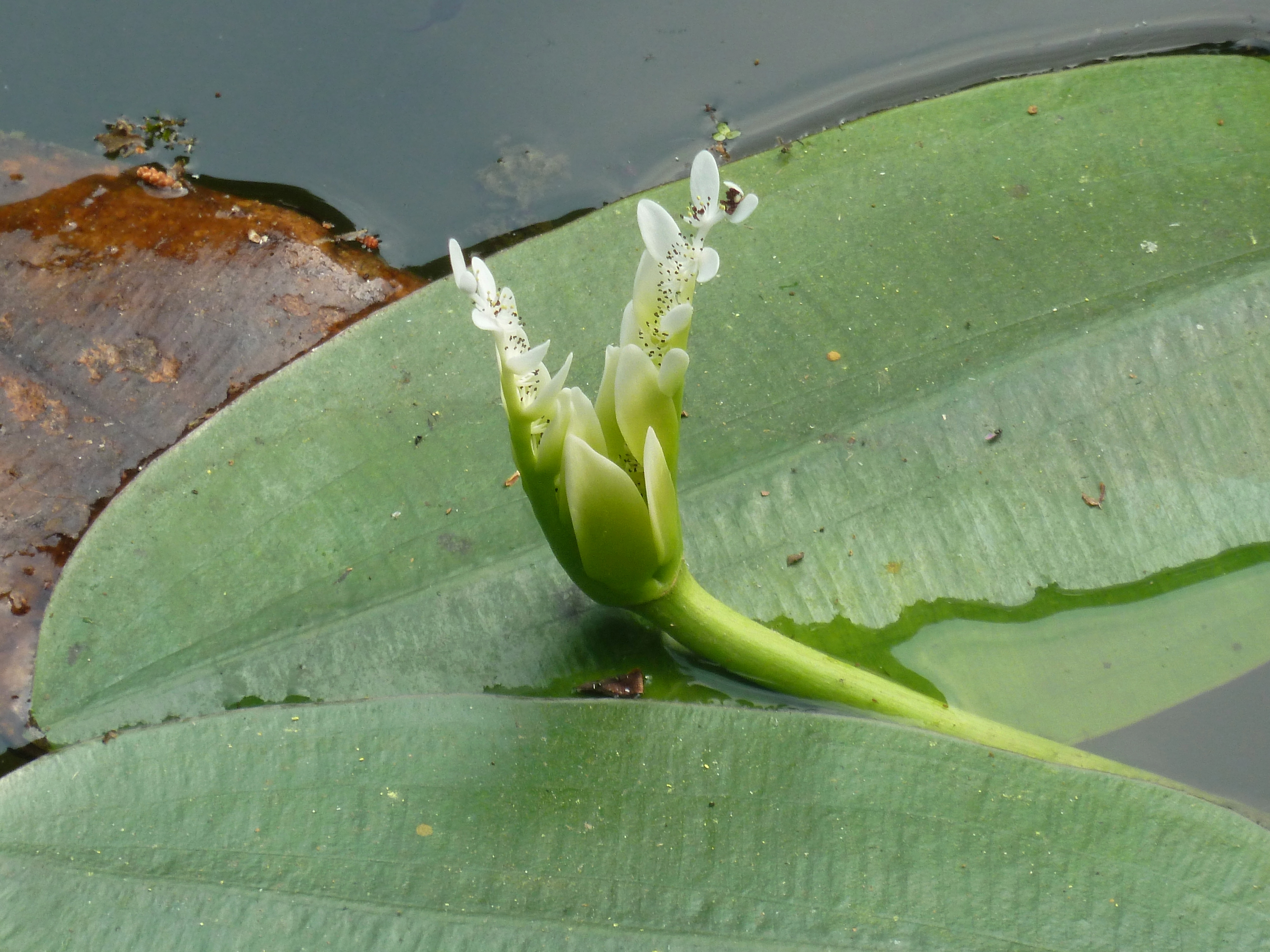 Flower of Cape pondweed in the Manie van der Schijff Botanical Garden, Pretoria